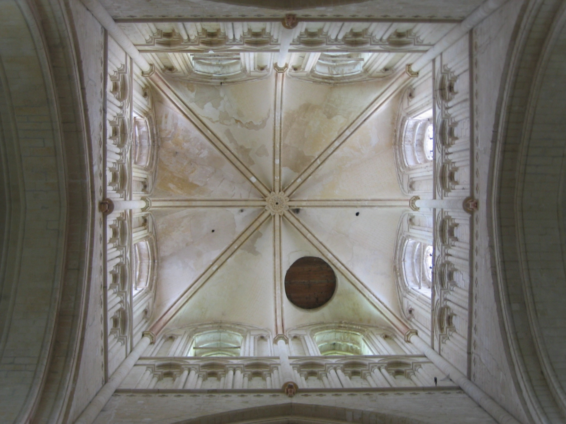 Abbey church of Fécamp, Seine-Maritime